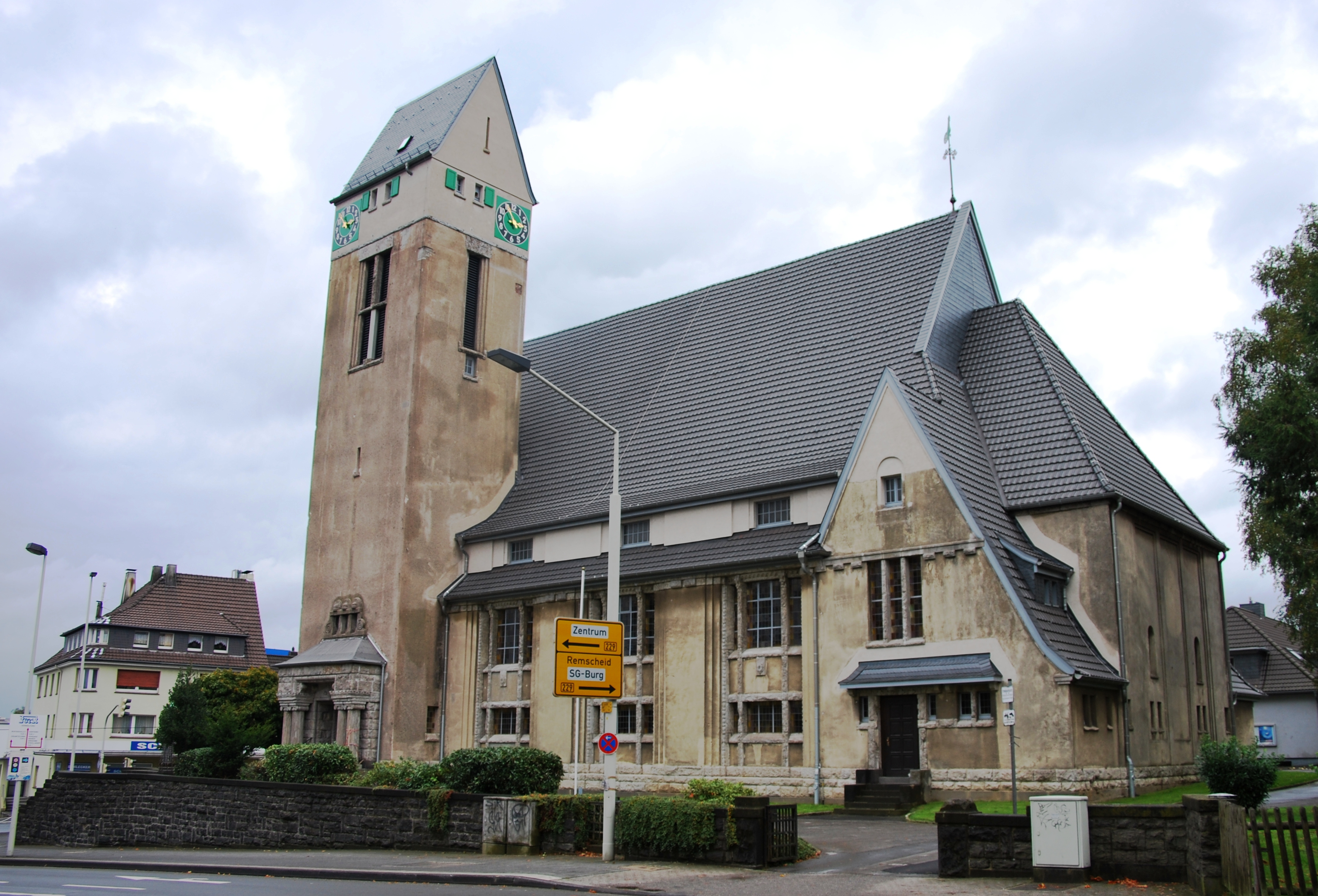 Dorper Church Solingen